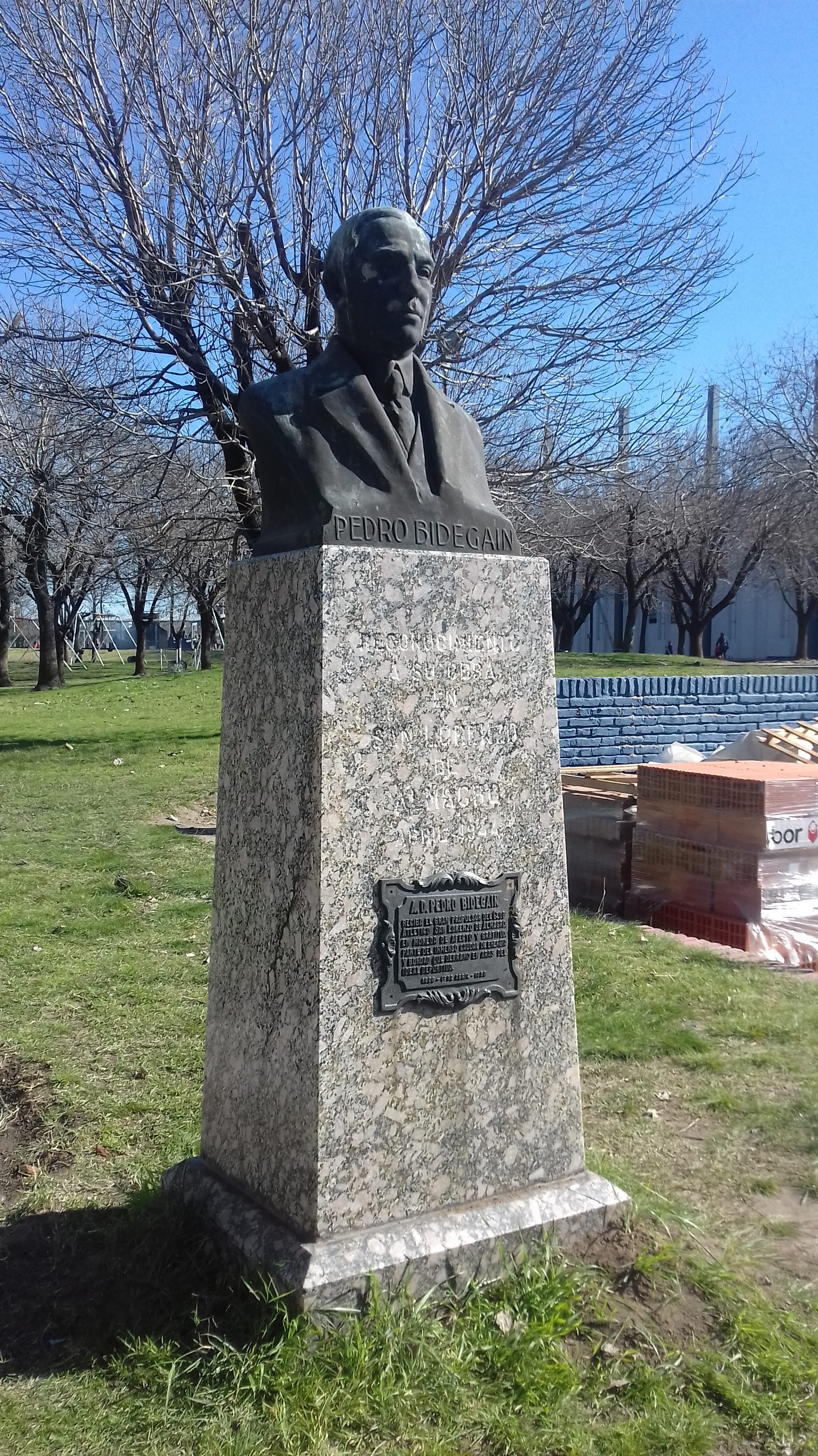 Pedro Bidegain. Ciudad Deportiva Club A. San Lorenzo de Almagro.